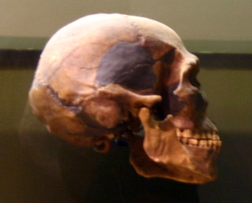 Homo sapiens sapiens fossil skull, Premost 3. Predmost (Czechoslavakia) Estimated date: 30,000 years ago. Cranial capacity: 1580 cubic centimeters.